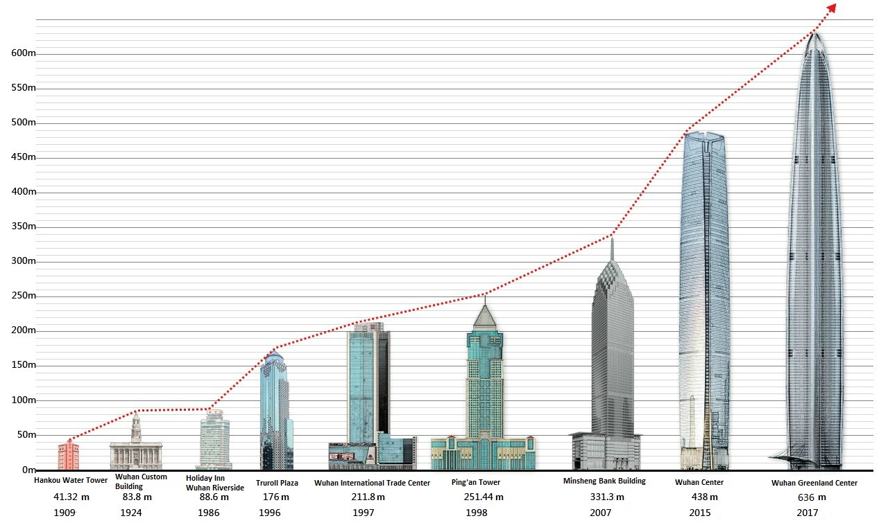 This is an image of a chart of the tallest buildings in Wuhan by year